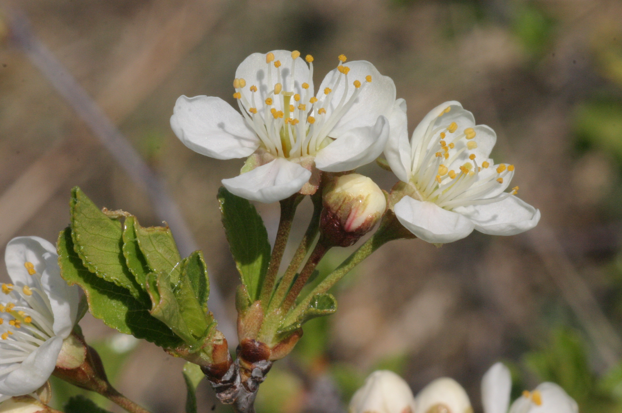 Prunus fruticosa